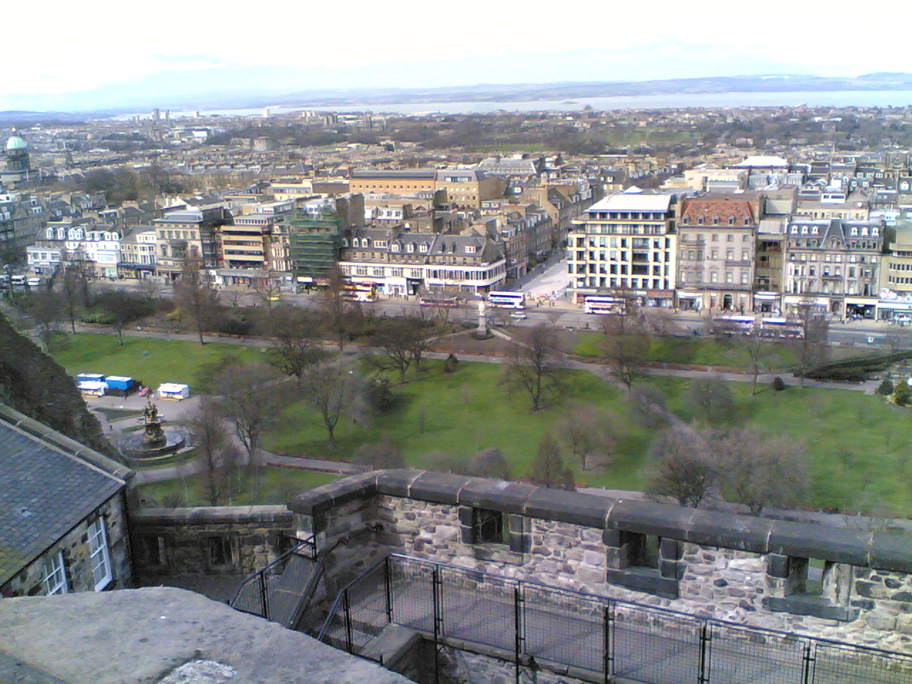 Edinburgh's New Town viewed from Edinburgh Castle.